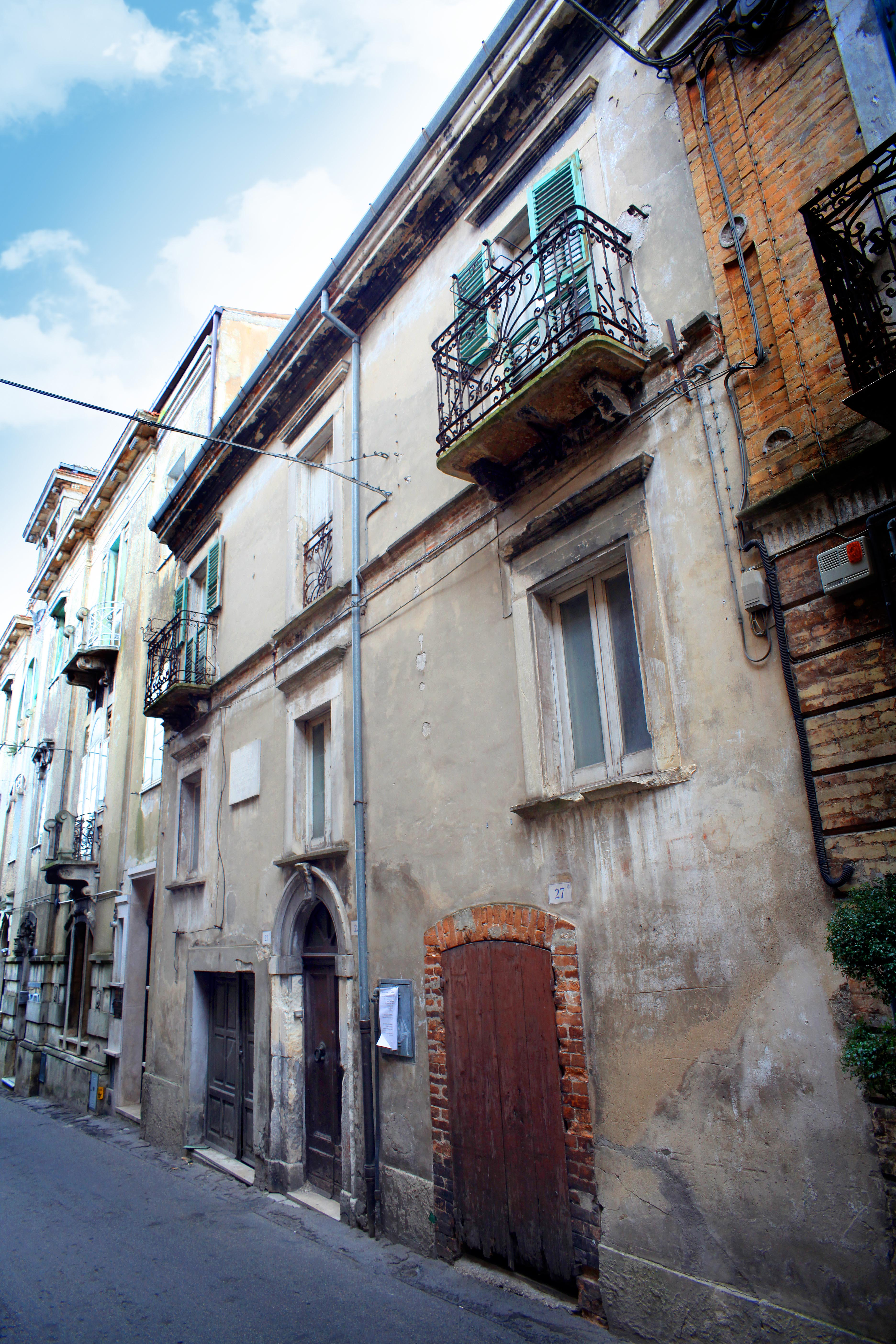 House of birth of the poet Modesto Della Porta, Via Modesto Della Porta 25, Guardiagrele, IT